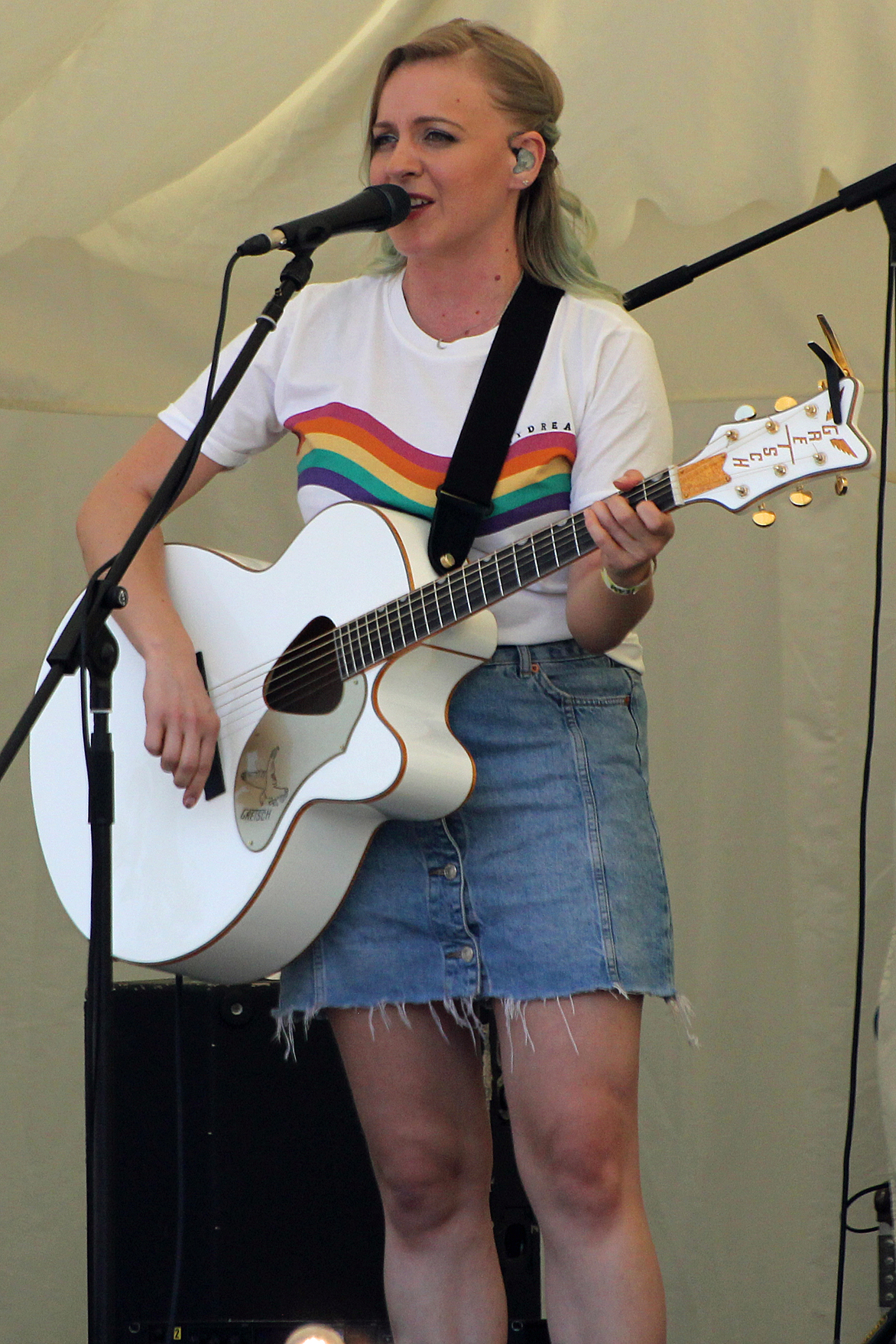 Philippa Hanna performing at Big Church Day Out (South) at Wiston House, West Sussex, UK, in May 2018.